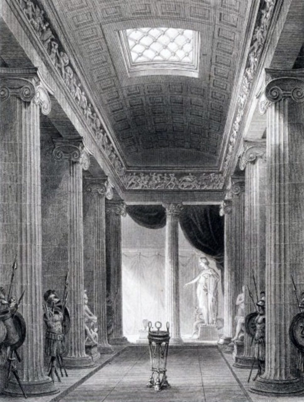 Charles Cockerell's depiction of the temple of Apollo at Bassae, published in The Temples of Jupiter Panhellenius at Aegina and of Apollo Epicurius at Bassae near Phigalia